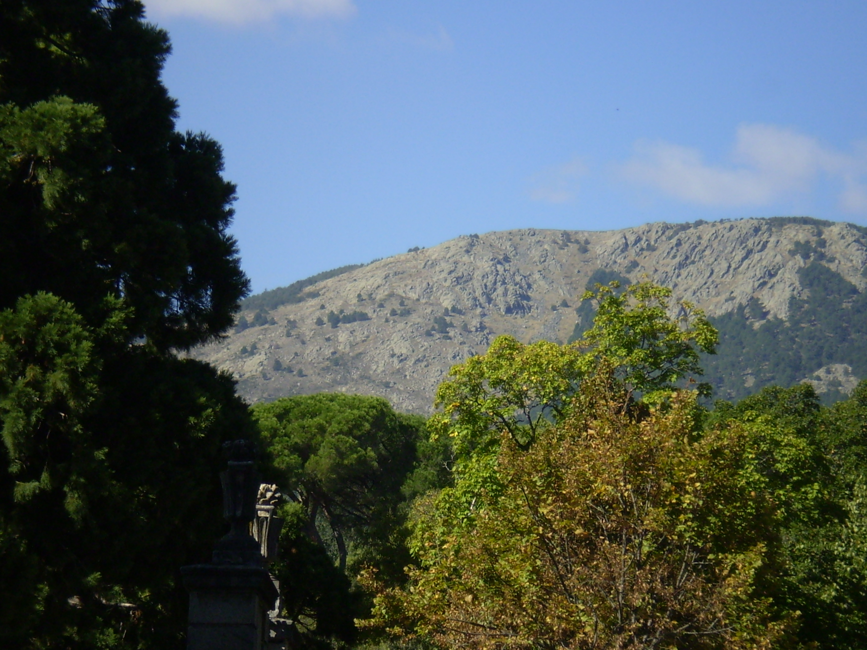 Abantos mountain. Sierra de Guadarrama. Community of Madrid, Spain